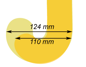 Comparison of horizontal head length of original 'Hook' (from outline drawing made from one purchased in 1984 by the author) with the horizontal length of a 'one piece' a stick commonly termed a short head or 'shortie'. Author Martin Conlon